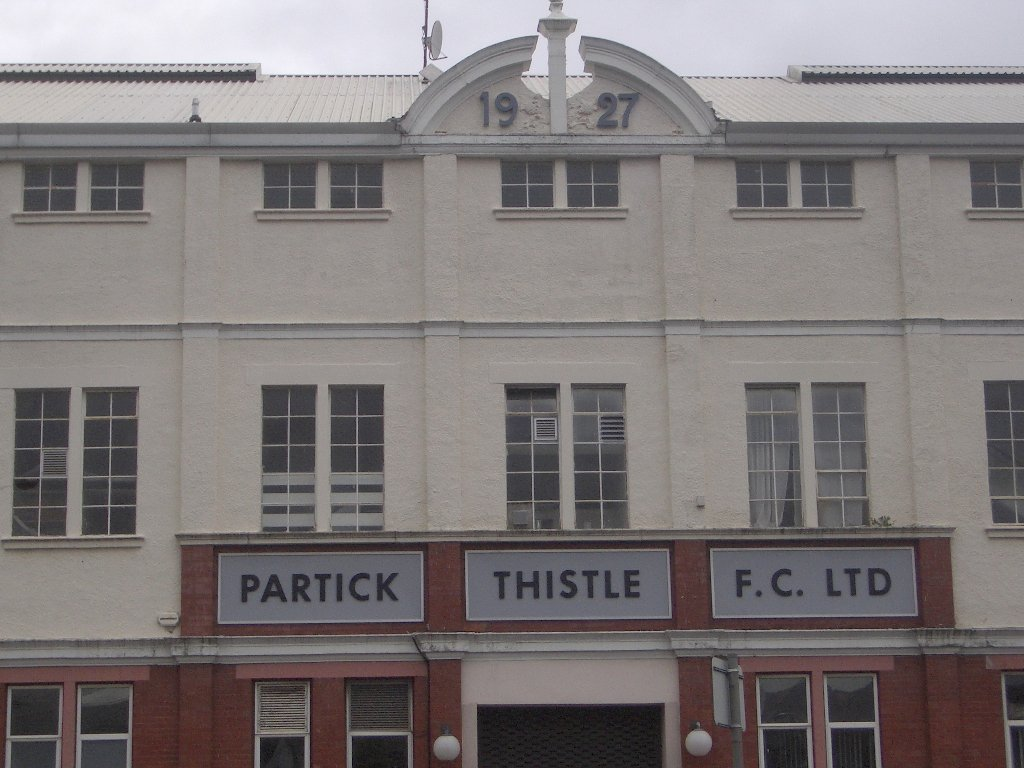 The facade of the Firhill Stadium, Glasgow